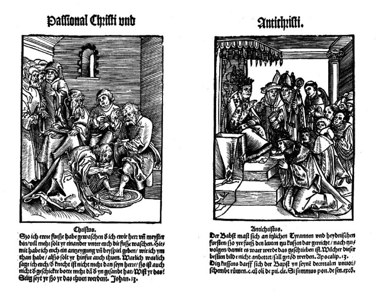 While Jesus Christ washes the feet his disciples, the Pope is seated on a throne and has his foot kissed by a subject. From Lucas Cranach the Elder : Passionary of the Christ and Antichrist